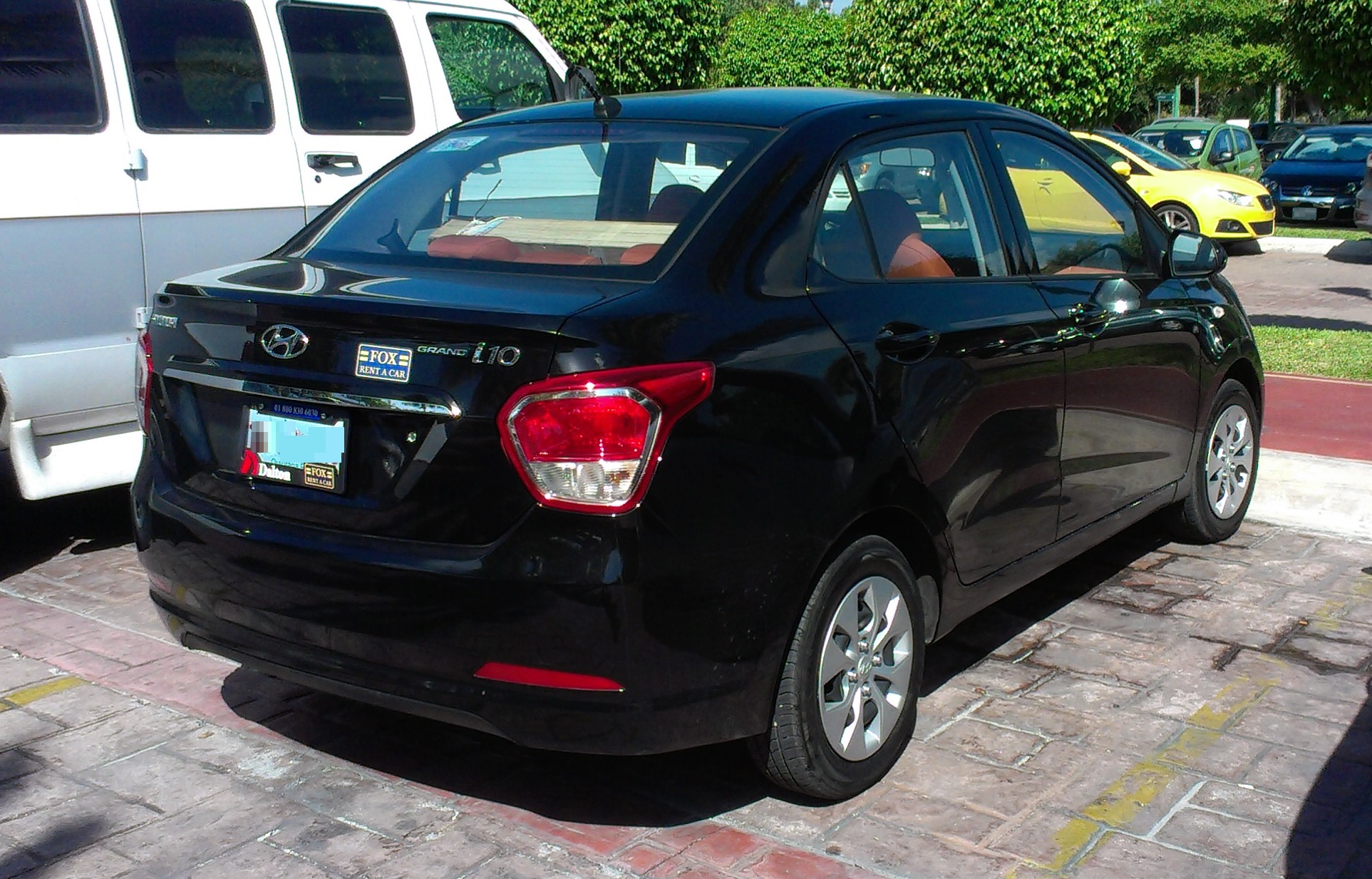 2015 Hyundai Grand i10 hatchback photographed in Cancùn, Quintana Roo, Mexico.